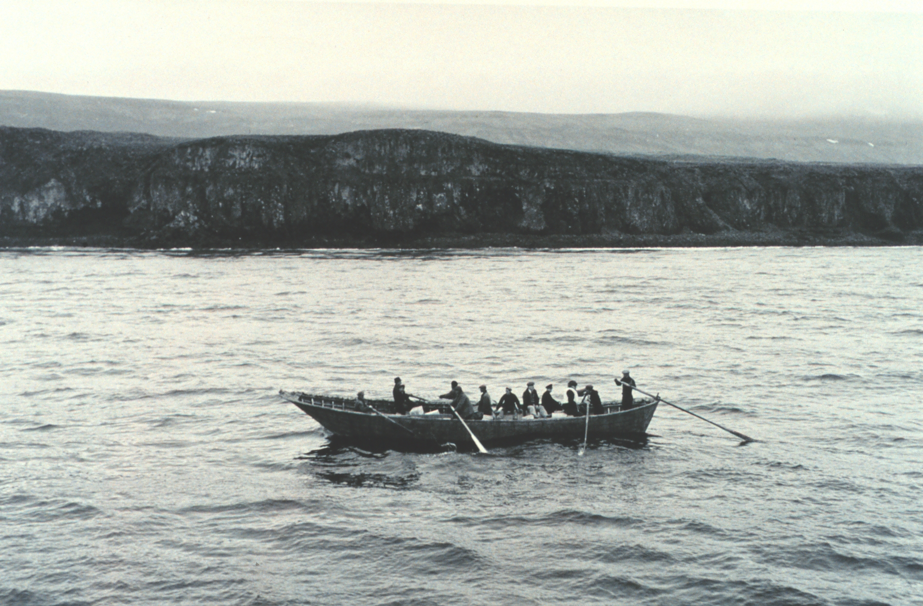 NOAA caption: A bidarrah or large skin boat off St. George Island. F&WS 10,030. Location: St. George, Pribilof Islands, Bering Sea, Alaska Photo Date: 1938 Credit